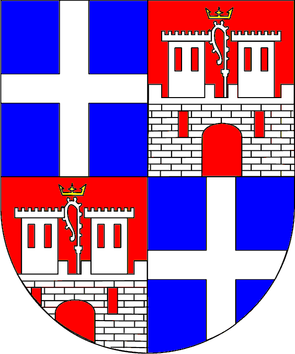 Coats of arms of the prince-bishop of Speyer and dean of Weissenburg